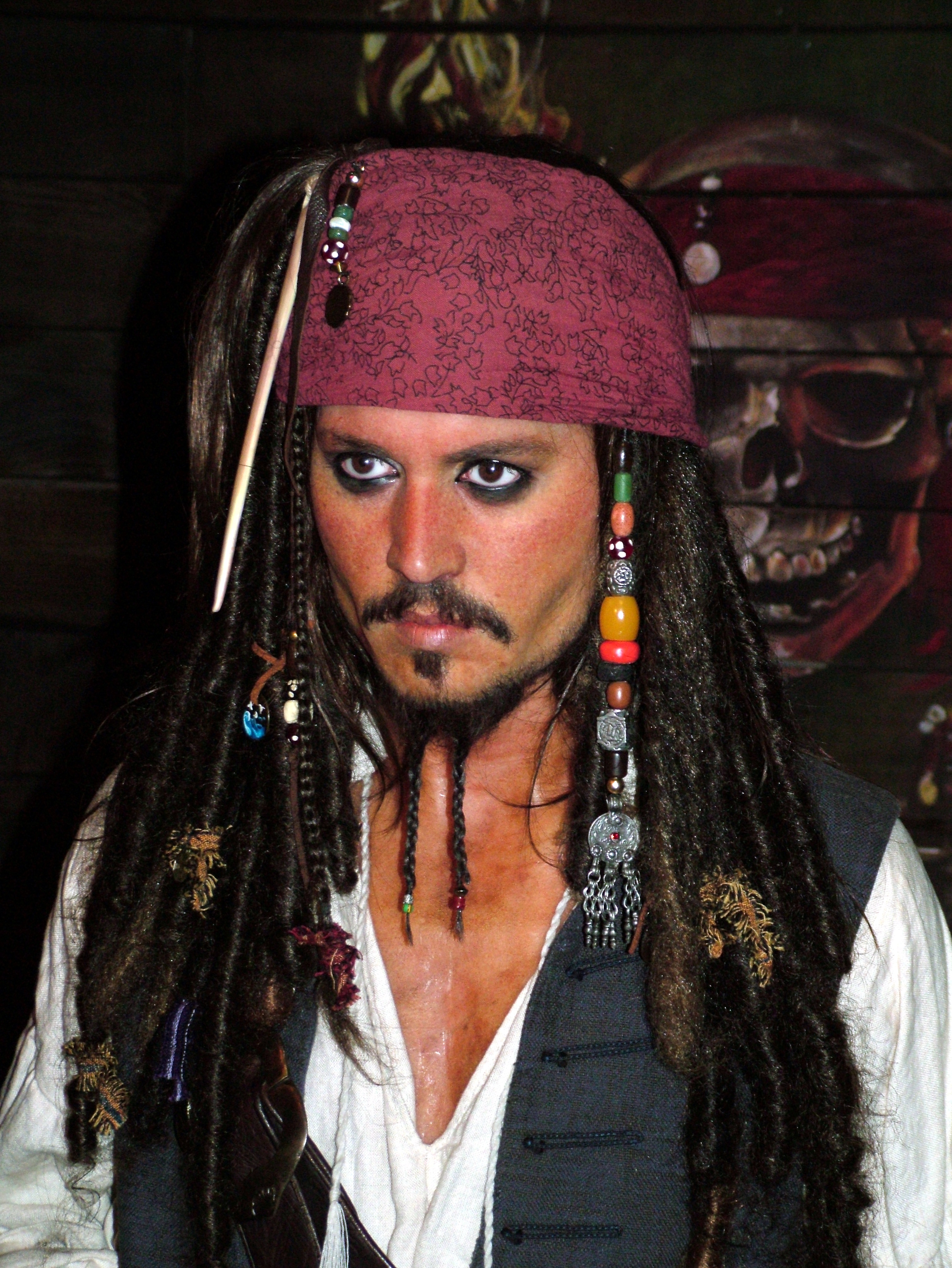 Jack Sparrow (Johnny Depp) - not really him, of course, but his Madame Tussaud's waxwork.